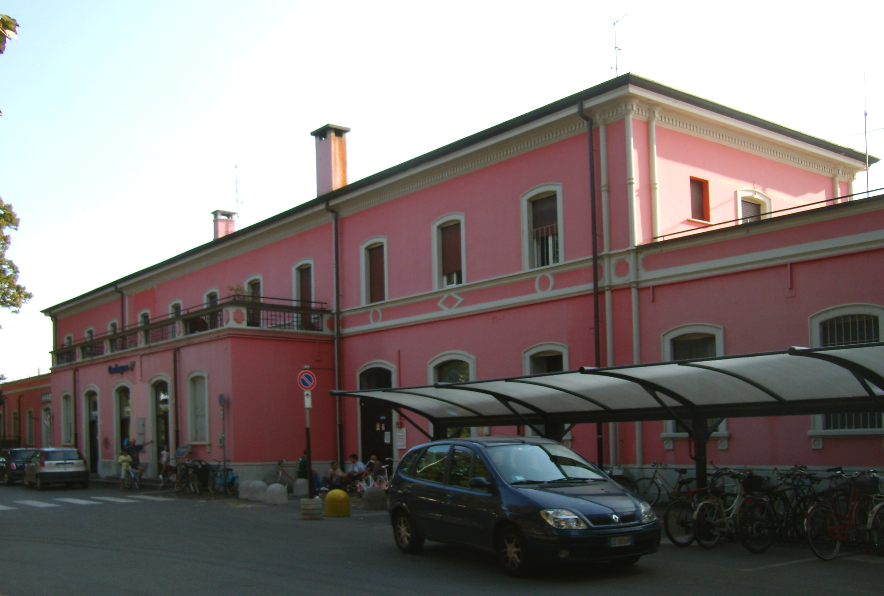 Railway station in Codogno (LO), Italy